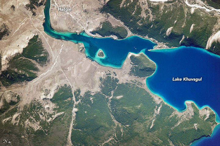 An astronaut on the International Space Station captured this photograph of the southern tip of Lake Khuvsgul (also known as Lake Hovsgol or Hovsgol Nuur) in north central Mongolia. Referred to as the “younger sister” of Lake Baikal, Khuvsgul is approximately 137 kilometers (85 miles) long and is the largest fresh water lake in Mongolia by volume. (Note that north is to the lower right in this image.) Several rivers and streams flow down from higher elevations (including the Sayan Mountains) and into Lake Khuvsgul. The Egiin River is the only outflow, ultimately carrying water to Lake Baikal through the Selenga River. Together, the two lakes hold more than 20 percent of Earth’s fresh surface water. The different shades of blue indicate different water depths—the deeper the blue, the deeper the water. Boreal forests (also referred to as taiga) cover the mountain slopes, while several streams cut through the forest and flow into the lake. Hatgal, a village with less than 4,000 inhabitants, sits on the lake shore and makes up most of the population in Khuvsgul Province. The lake and its surroundings are part of 11,803 square kilometers (4,557 square miles) of protected land designated as Lake Hovsgol National Park.